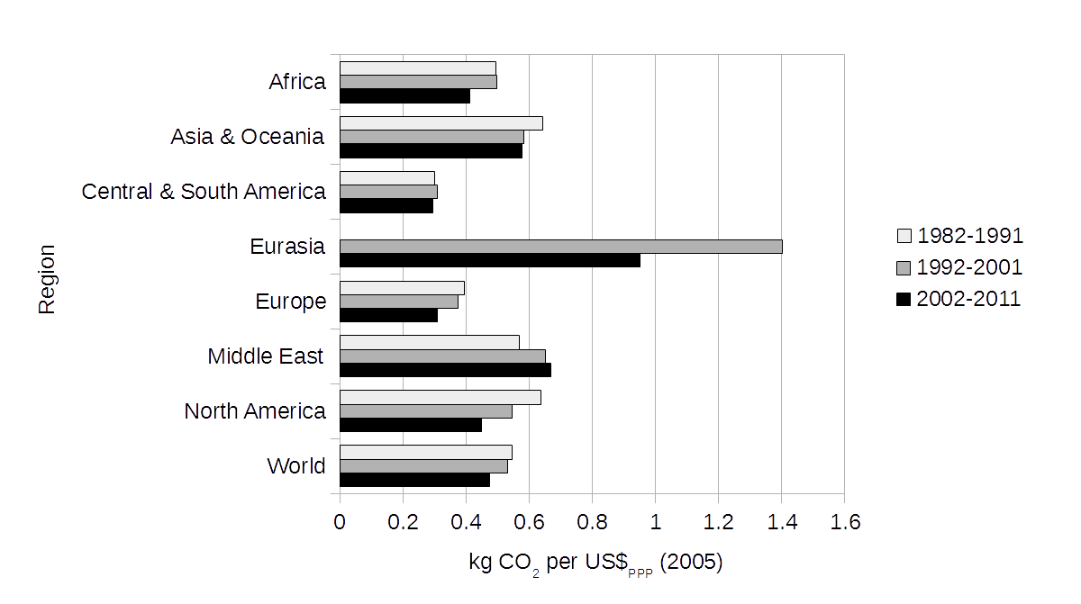 This bar graph shows the carbon intensity of gross domestic product (GDP) for different regions between the years 1982 and 2011. Carbon intensity of GDP is defined as annual carbon dioxide emissions divided by annual GDP. Carbon dioxide emissions are measured in kilograms. GDP is measured in US dollars (year 2005 values) using purchasing power parities (PPP). The regions are: Africa, Asia and Oceania, Central and South America, Eurasia, Europe, the Middle East, North America, and the world. These regional groupings are defined in a later section. Three carbon intensity values are given for each region, which are averaged over the years 1982 to 1991, 1992 to 2001, and 2002 to 2011. Data are given in a later section. Intensities show variations regionally and over time. Global carbon intensity has, on average, fallen over this time period. References Data are from a public-domain source: US Energy Information Administration ((Please provide a date)) International Energy Statistics: Carbon Intensity using Purchasing Power Parities (Metric Tons of Carbon Dioxide per Thousand Year 2005 U.S. Dollars)[1]. Archived 11 October 2014.